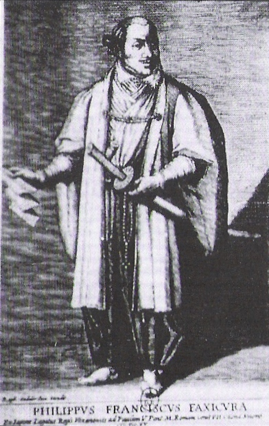 European account of Hasekura Tsunenaga, in a 17 century book.